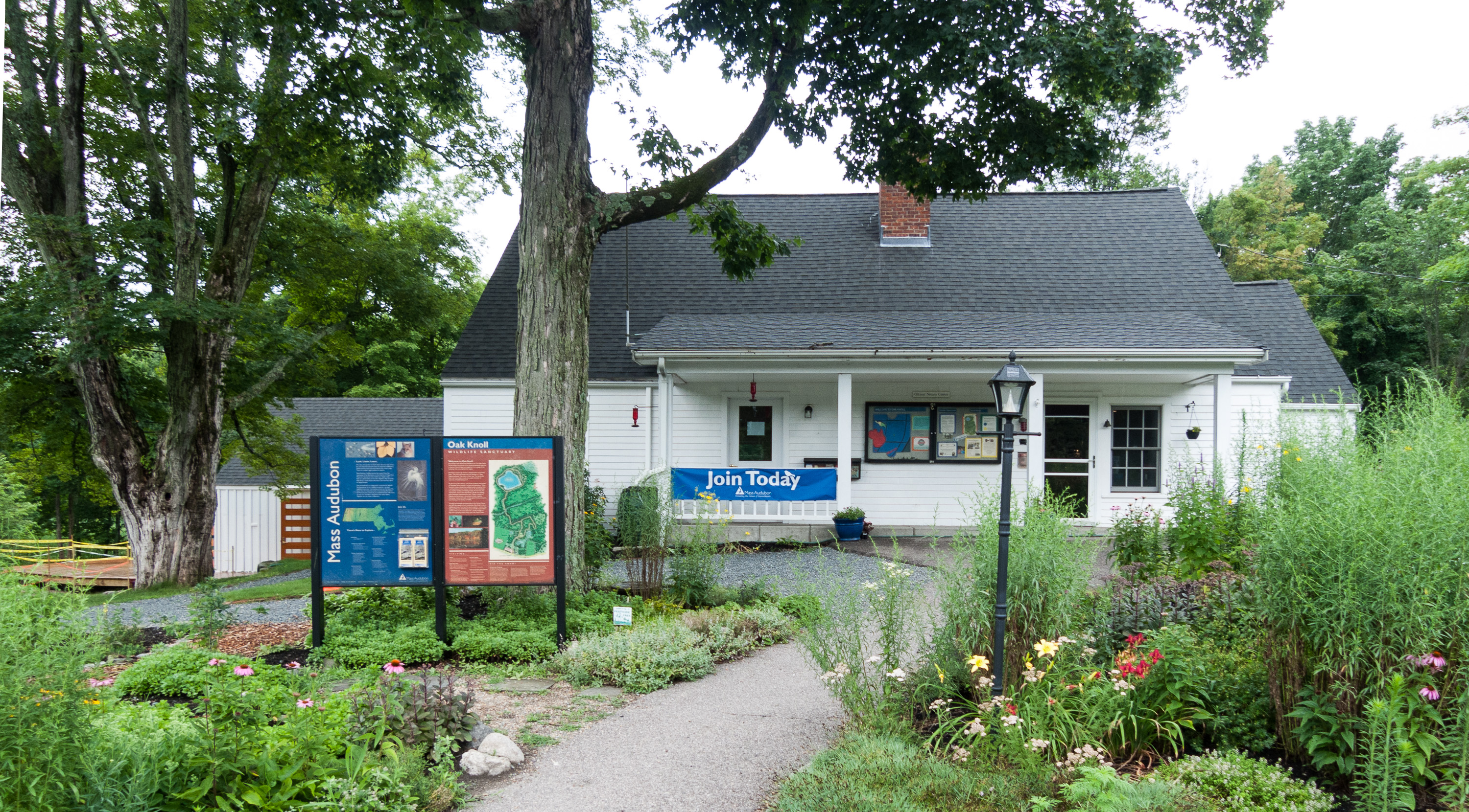 Oak Knoll Wildlife Sanctuary visitor center, Attleboro, Massachusetts. Part of Massachusetts Audubon Society.